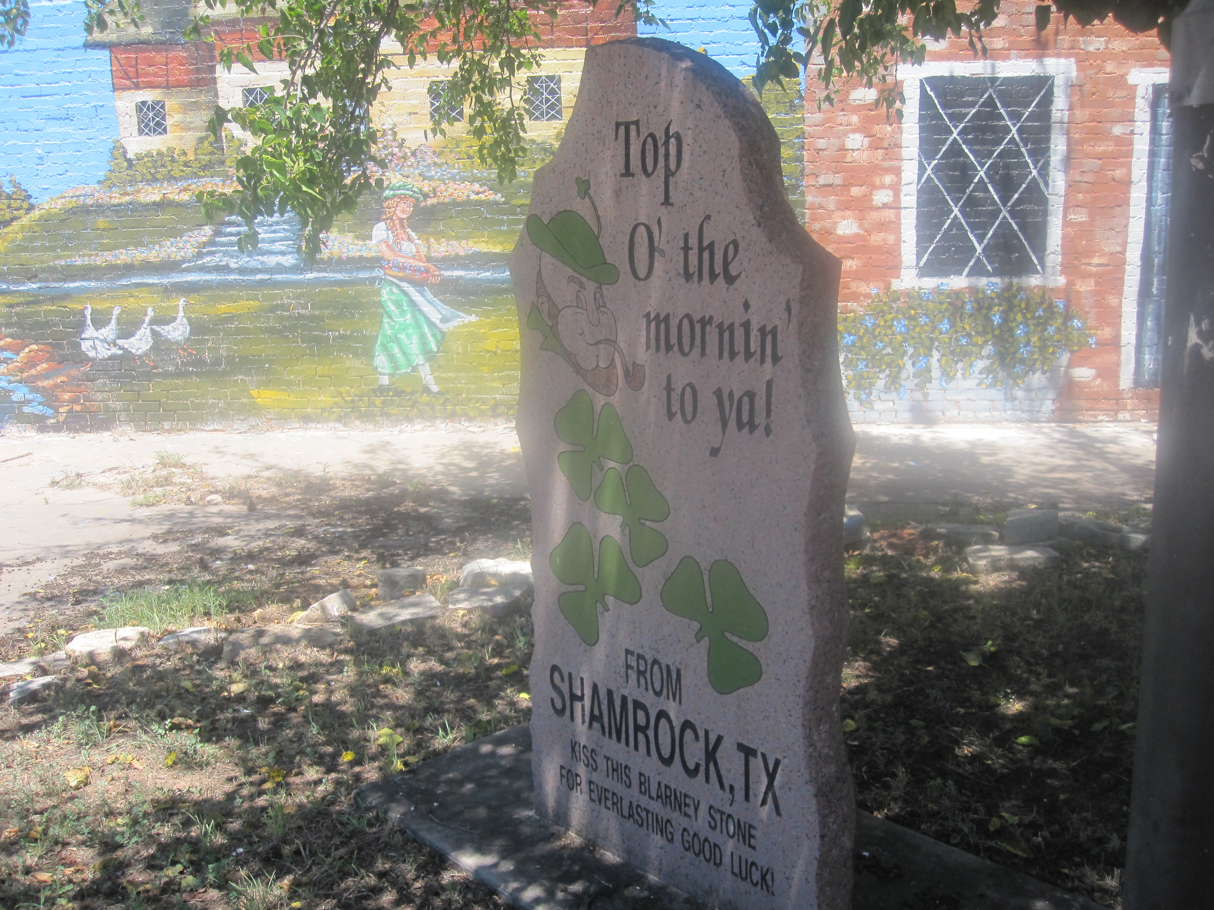 I took photo with Canon camera in Shamrock, TX.